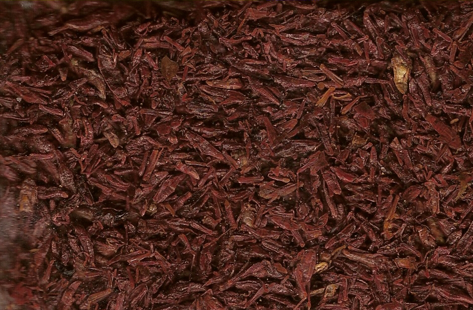 Tiny chapulines.